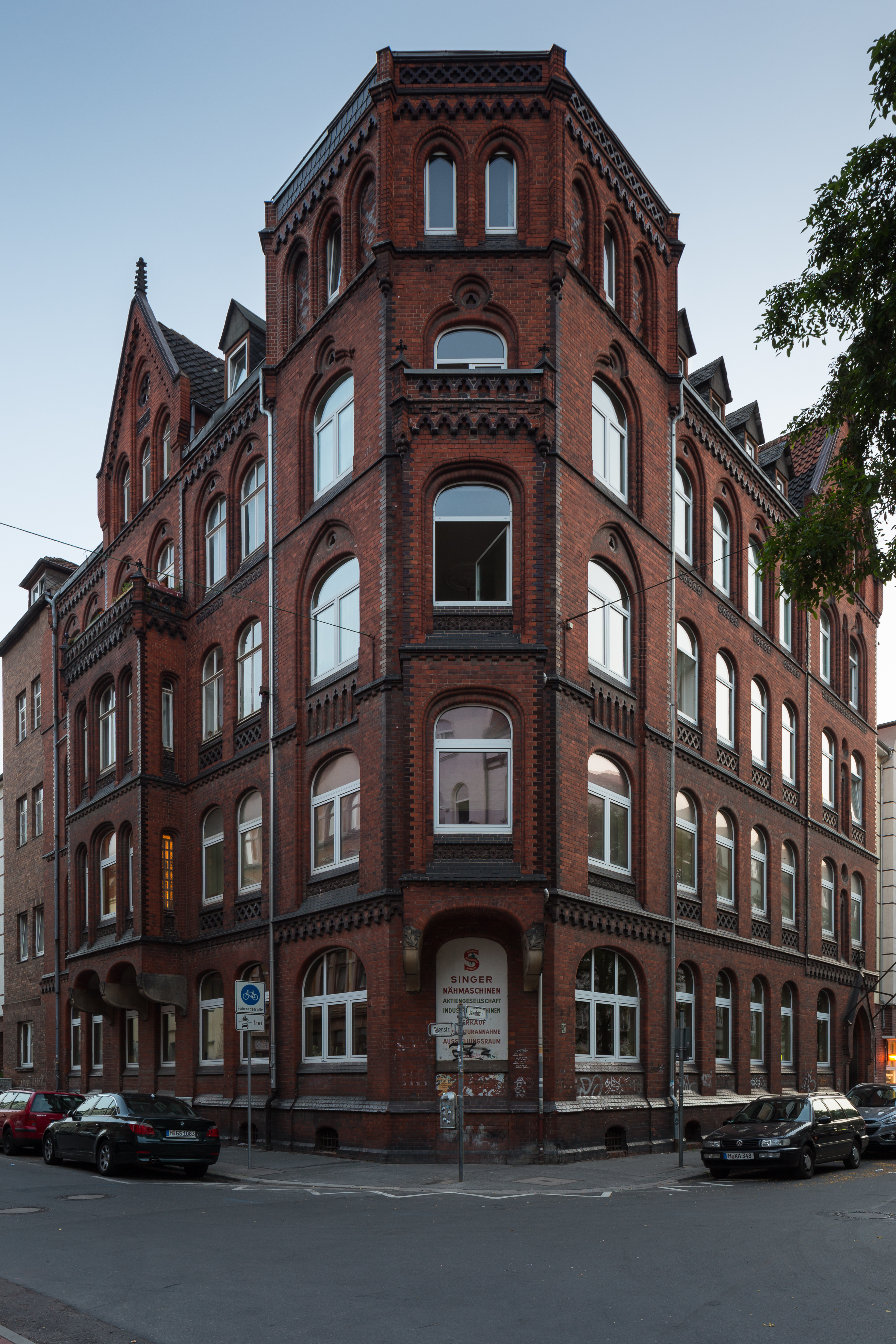 House located at Jakobistraße no. 9 and Edenstrasse in List quarter of Hannover, Germany.